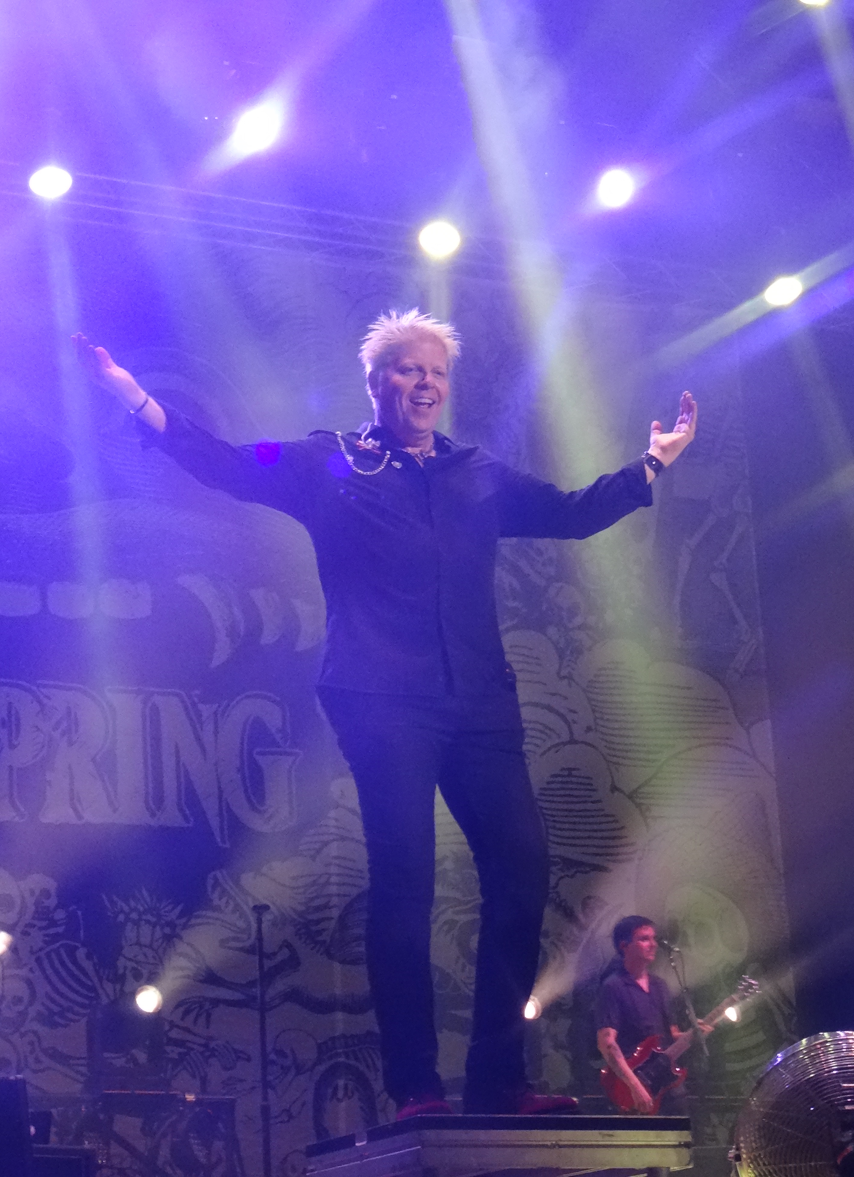 Dexter Holland live in Rome